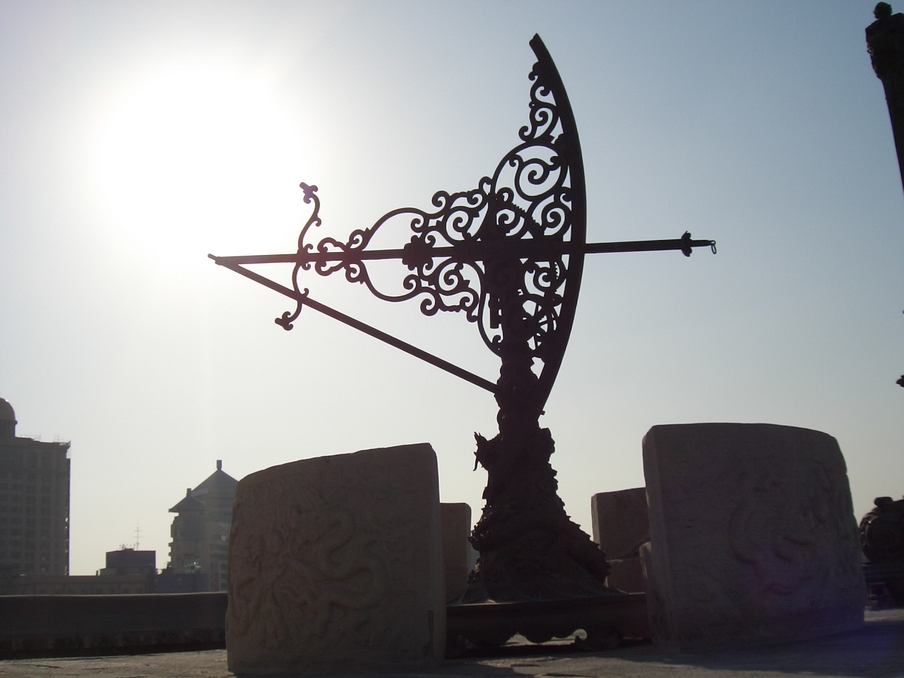 Equipment at the Beijing Ancient Observatory